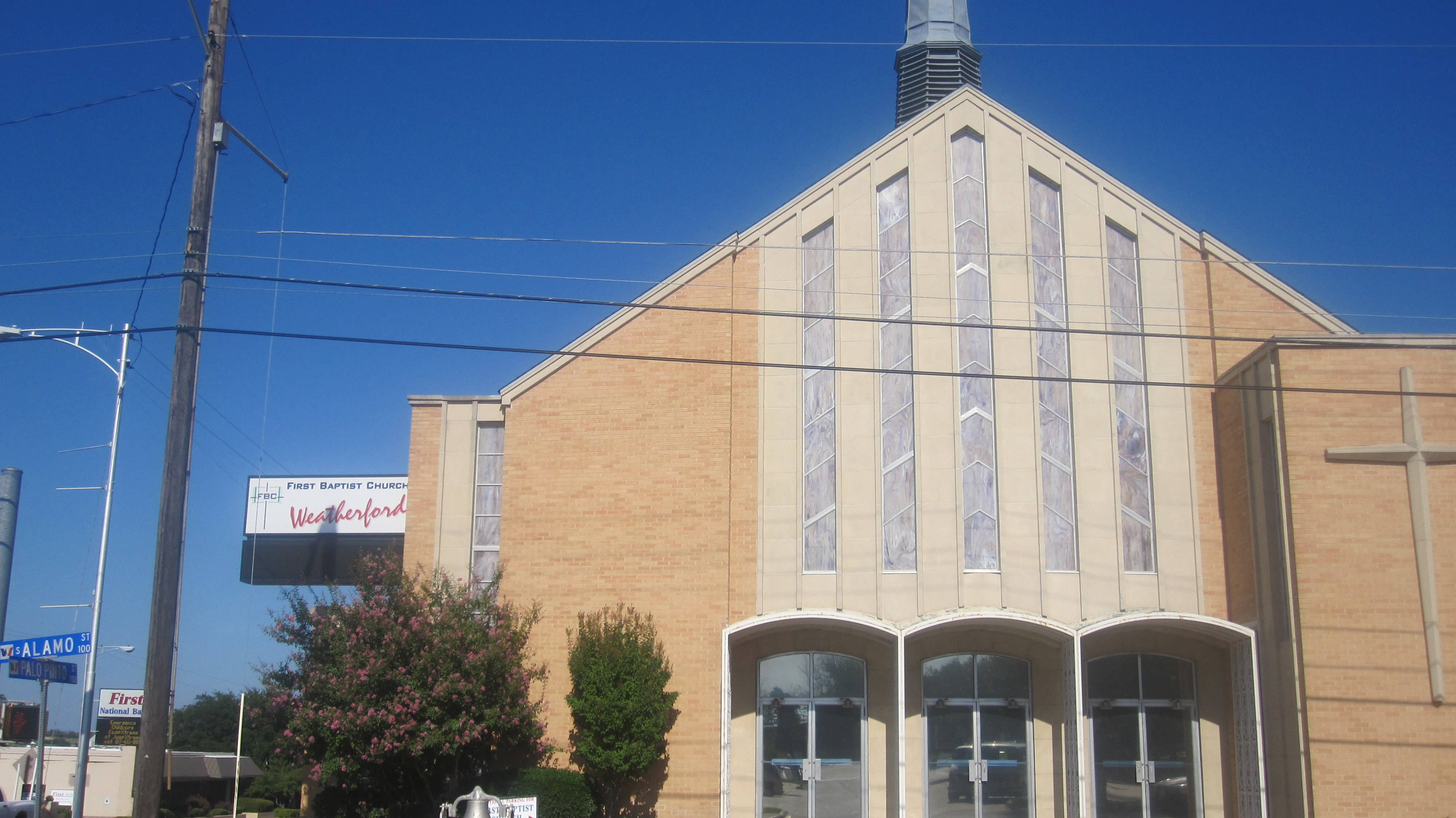 I took photo with Canon camera in Weatherford, TX.